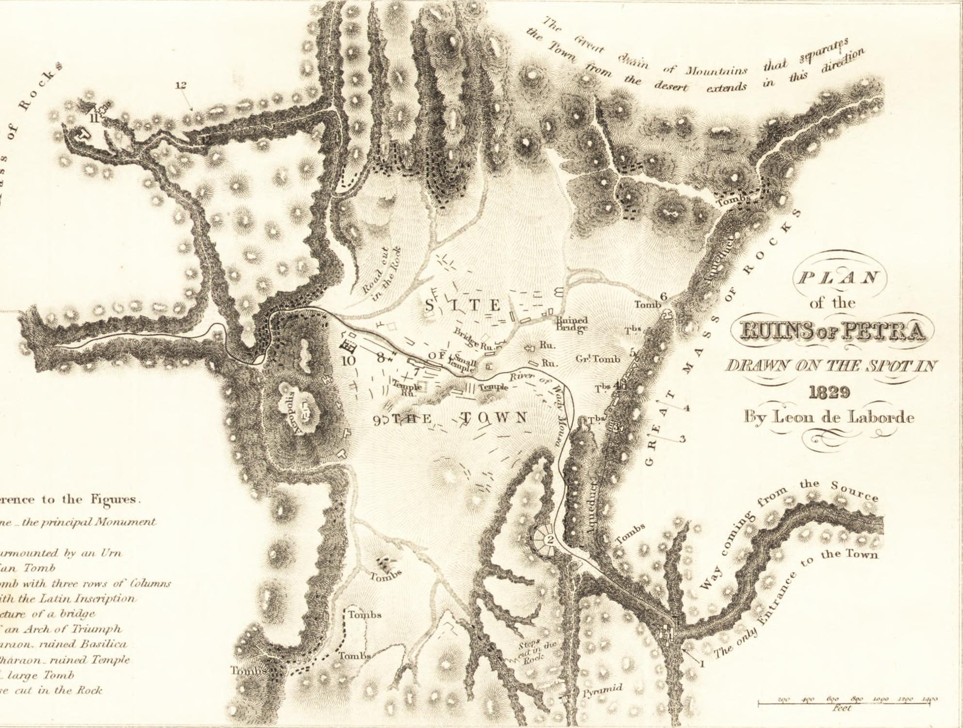 Title: Journey through Arabia Petraea, to Mount Sinai, and the excavated city of Petra, the edom of the prophesis Year: 1836 (1830s) Authors: Laborde, Léon, marquis de, 1807-1869 Murray, John, 1778-1843, publisher Spottiswoode, Andrew, printer Day & Haghe, lithographer Subjects: Fouilles (Archéologie) Publisher: London : John Murray, Albemarle Street Text Appearing Before Image: ISOLATED COLUMN. CHAPTER X. PLAN OF PETRA. TOMB IN TWO STYLES.— ISOLATED COLUMN. TOMB LEFT UNFINISHED.— RUINS OF A TEMPLE. MONU-MENTAL RESIDENCE. RIVER OF PETRA. TRIUMPHAL ARCH. COLOSSAL TEMPLE. A THEATRE. DEFILE OF PETRA. GREEK INSCRIPTION. — THE KHASNE. TREA-SURY OF PHARAOH. INTERIOR OF THE KHASNE. VIEW OF THE ARCH FROM THE RAVINE. Ihe reader should place before him the map ofPetra, in order that he might the more clearlycomprehend the mode in which we spent our timethere. We arrived from the south, and descended Text Appearing After Image: o / PETRA. 153 by the ravine which presents itself near the borderor margin below. By advancing a little in thatdirection we commanded a view of the whole citycovered with ruins, and of its superb enclosure ofrocks, pierced with myriads of tombs, which forma series of wondrous ornaments all round. Astonished by these countless excavations \ I a Some hundred yards be-low this spring begin the out-skirts of the vast Necropolis ofPetra. Many door-ways are vi-sible, upon different levels cut inthe side of the mountain, whichtowards this part begins to as-sume a more rugged aspect; themost remarkable tombs standnear the road, which follows thecourse of the brook. The first ofthese is on the right hand, and iscut in a mass of whitish rock,which is in some measure insu-lated and detached from thegeneral range. The centre re-presents the front of a squaretower, with pilasters at the cor-ner, and with several successivebands of frieze and entablatureabove; two low wings projectfrom it at right